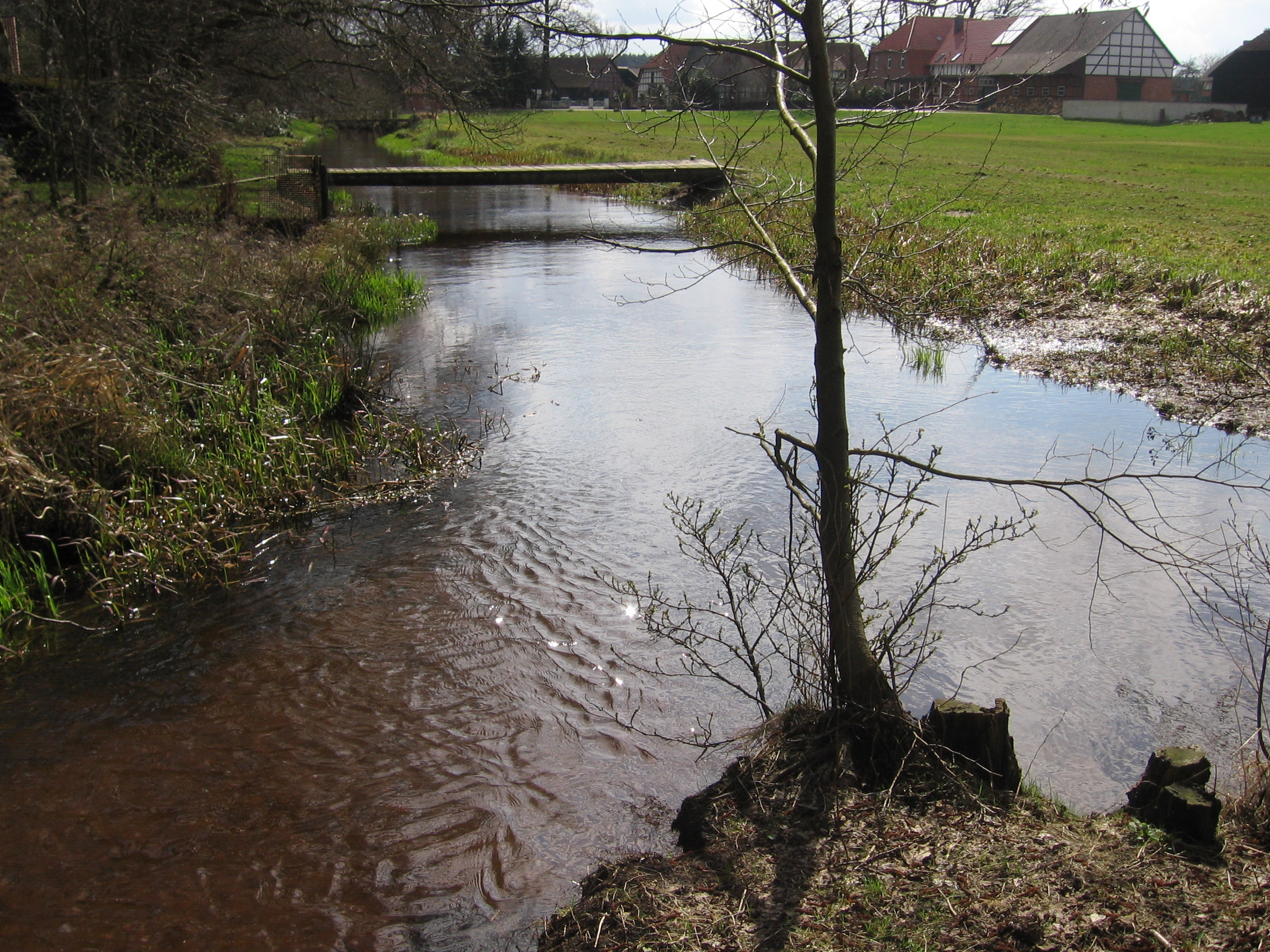 Confluence of Schmalwasser and Lutter at Bargfeld, Lower Saxony